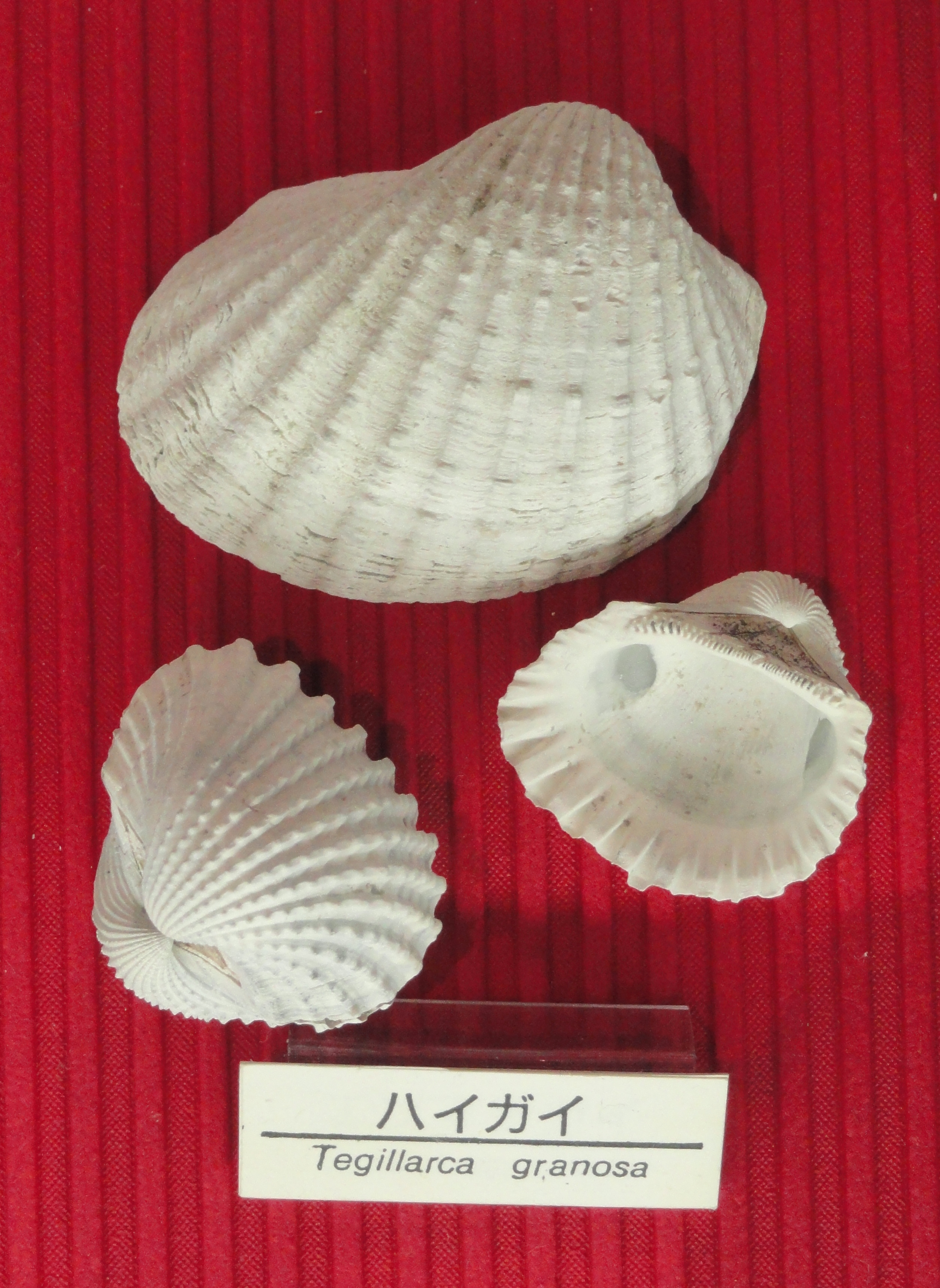 Exhibit in the Osaka Museum of Natural History, Osaka, Japan.